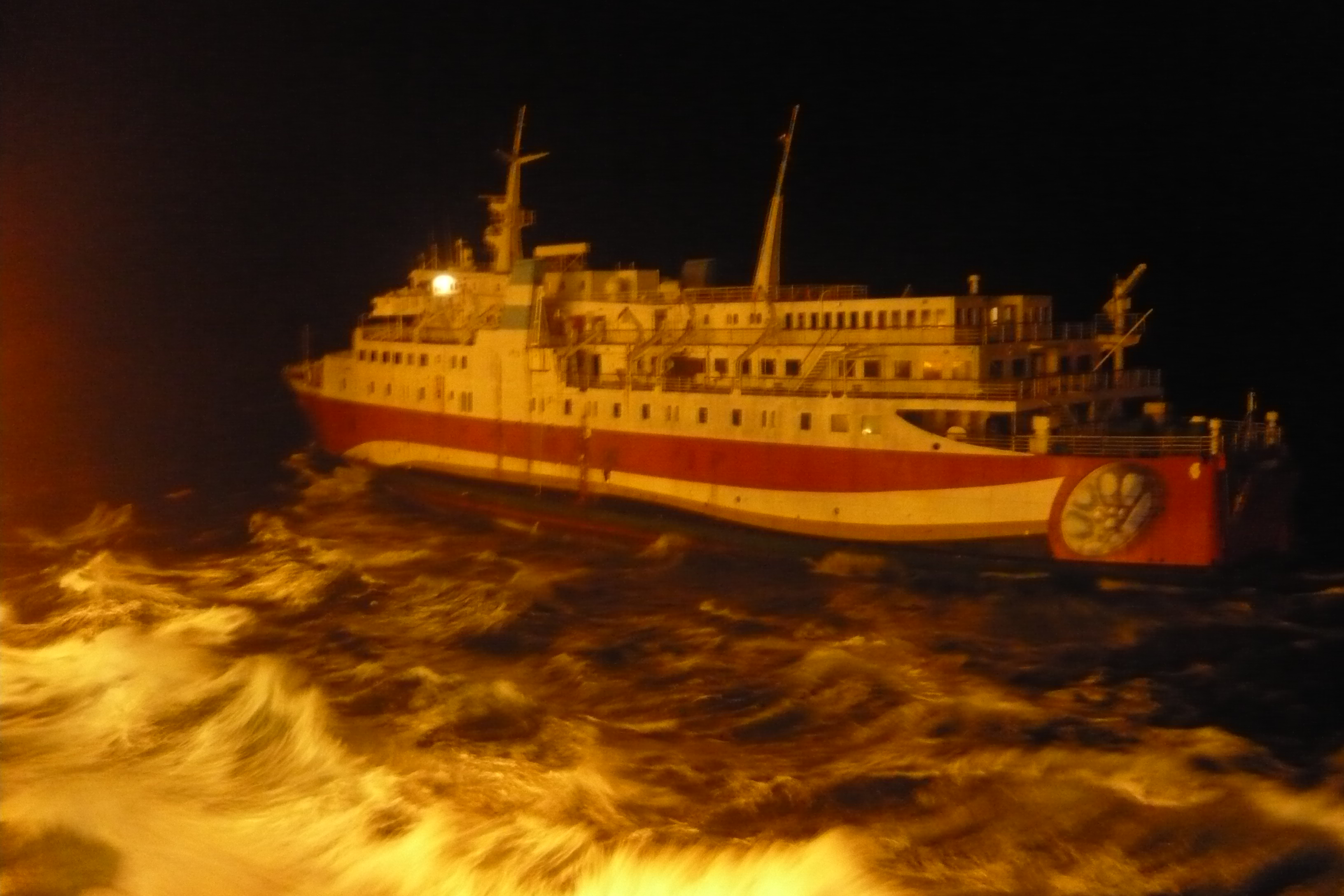 The sinking of the ferry Windward II on April 02, 2011 after its collision with the drillship Petrosaudi Saturn.